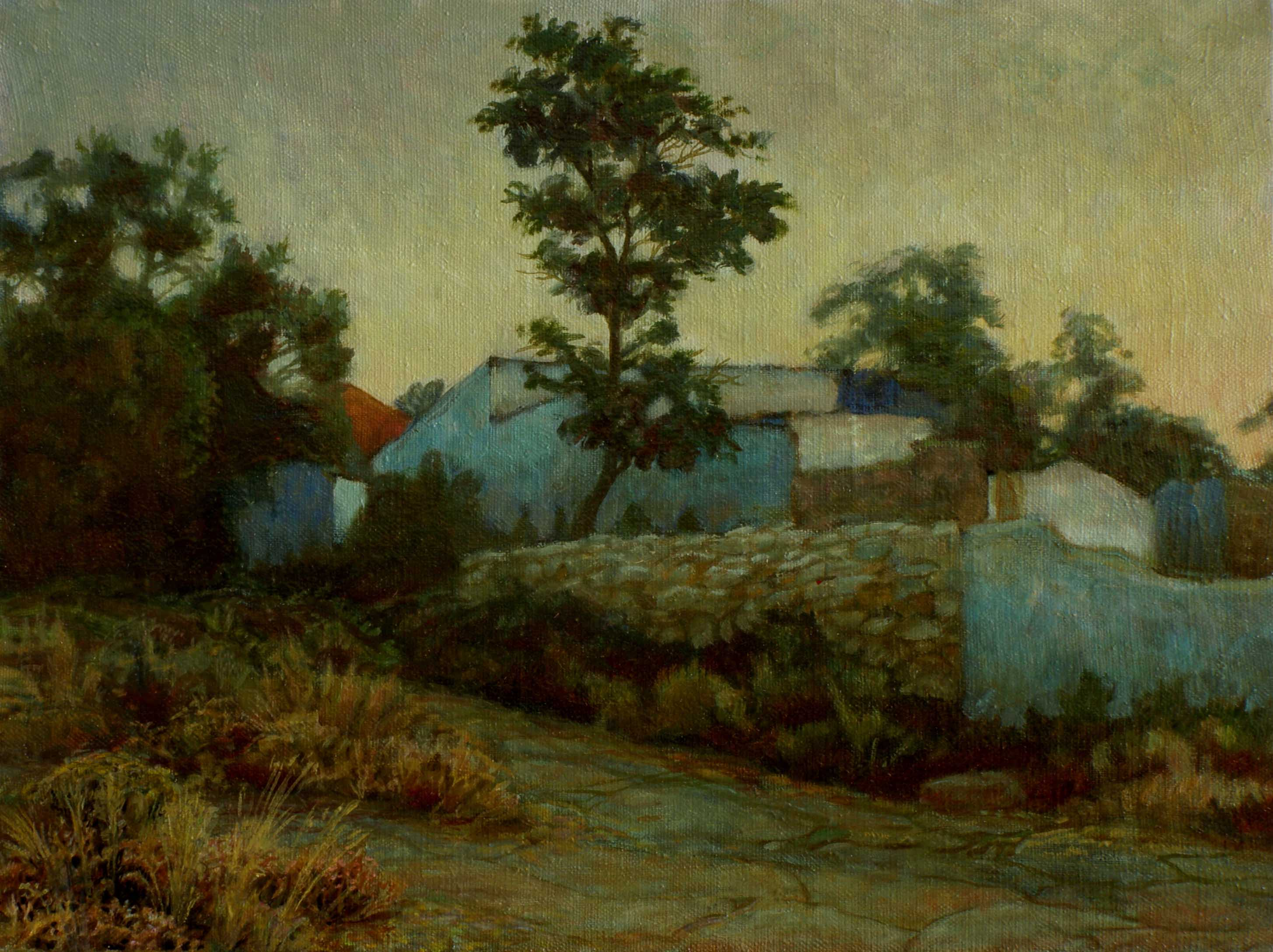 Crimea, Old Kerch (Mount Mithridat)